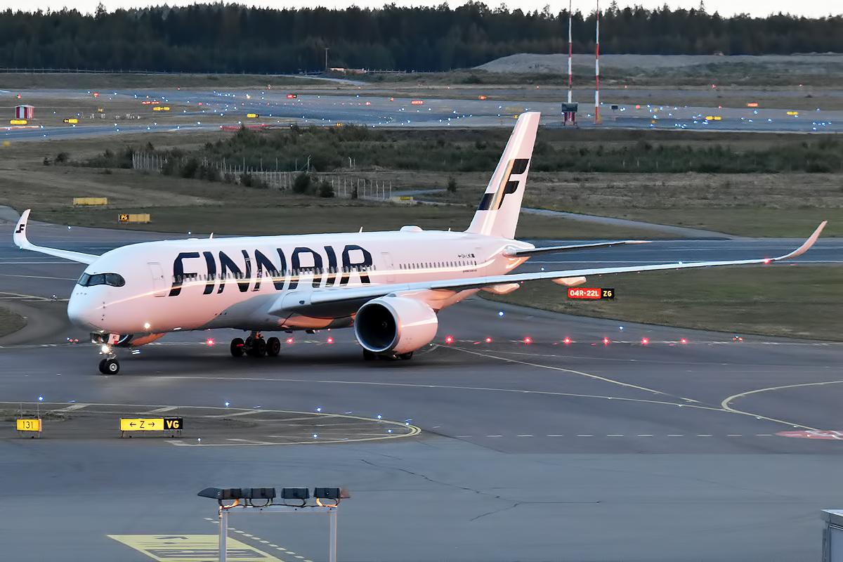 Finnair, OH-LWO, Airbus A350-941